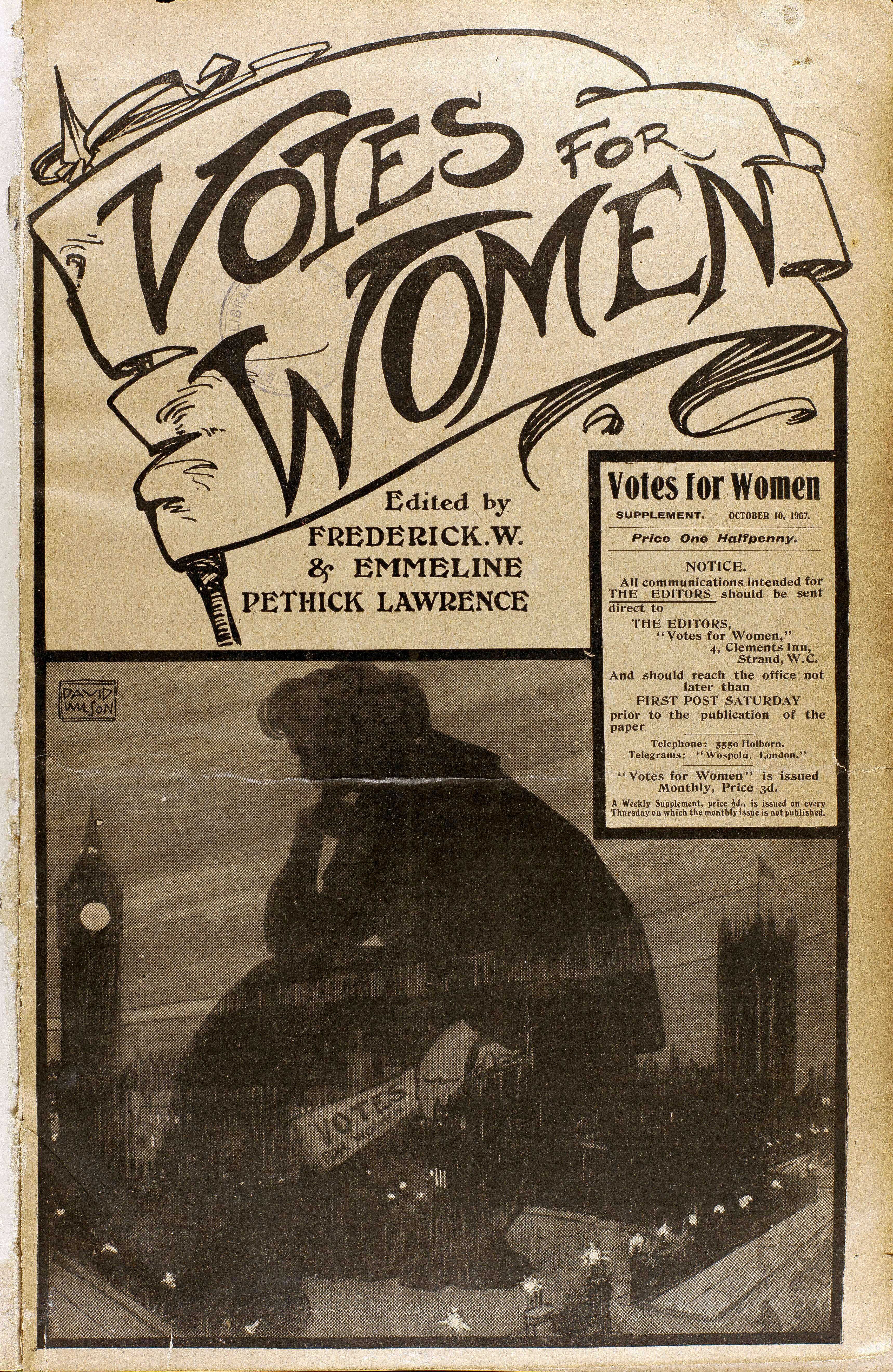 N39